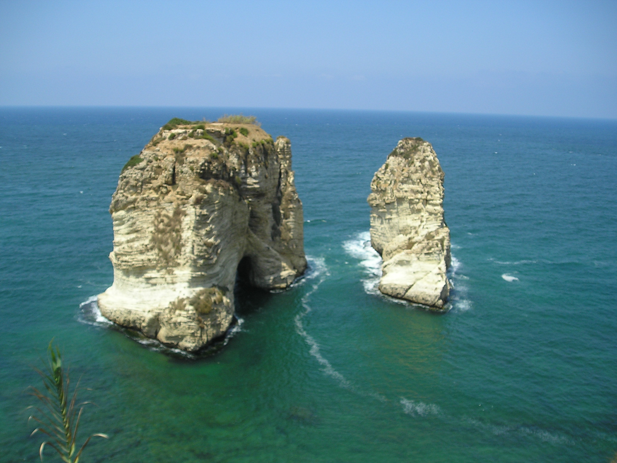 Beirut, Lebanon - Raouché (Pigeon Rocks)